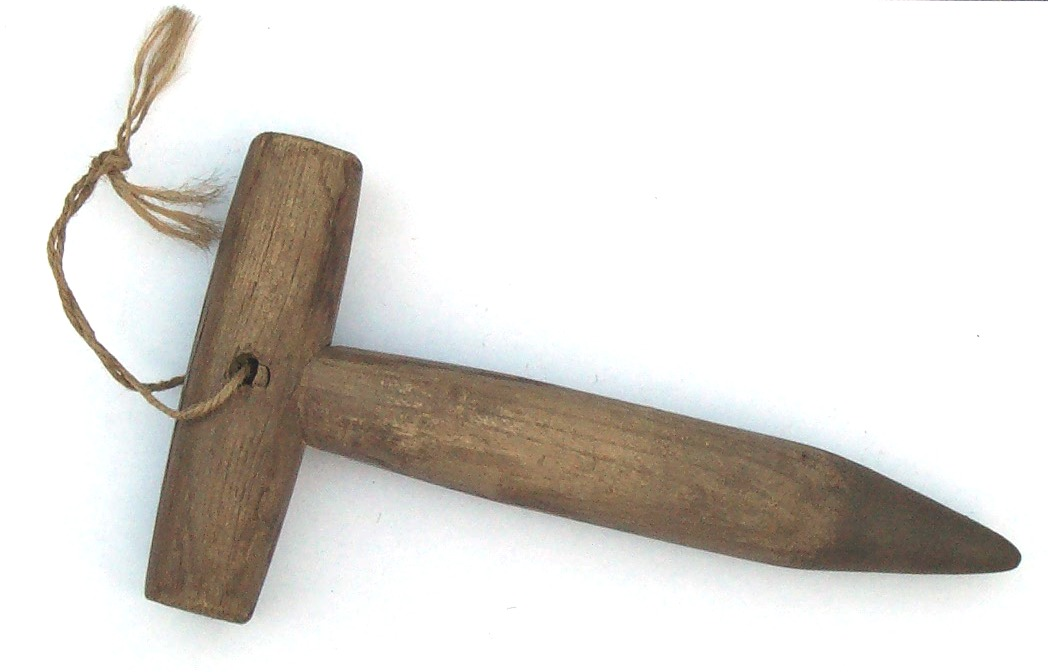 A small wooden T-handled dibber (also known as a "dibble").